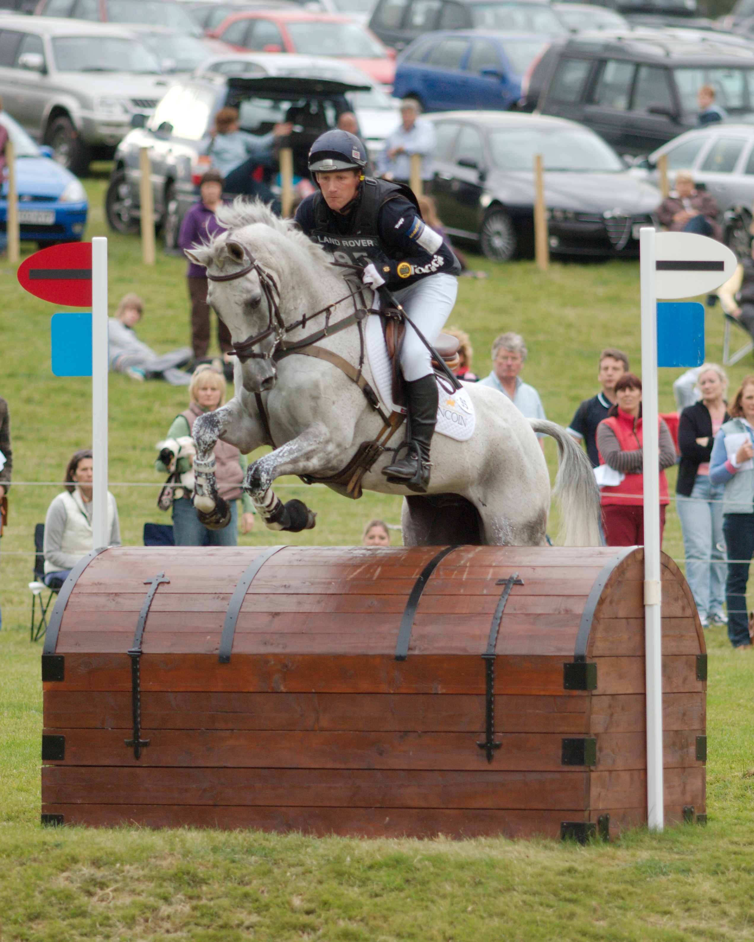 Oliver Townend and Carousel Quest, the winning combination at Burghley Horse Trials 2009, at the Discovery Valley during the cross country phase.